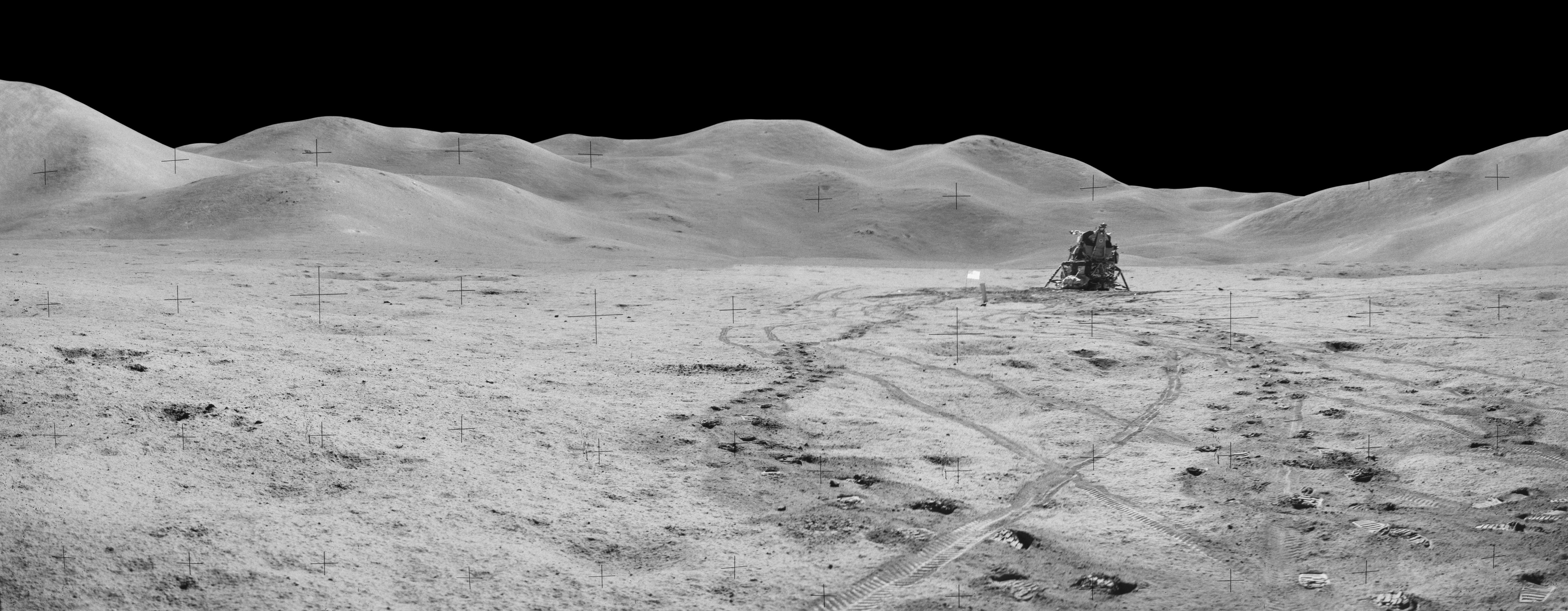 Apollo 15 view from Station 8. Background : Mt. Hadley and Swann Hills images as15-82-11054 thru as15-82-11058